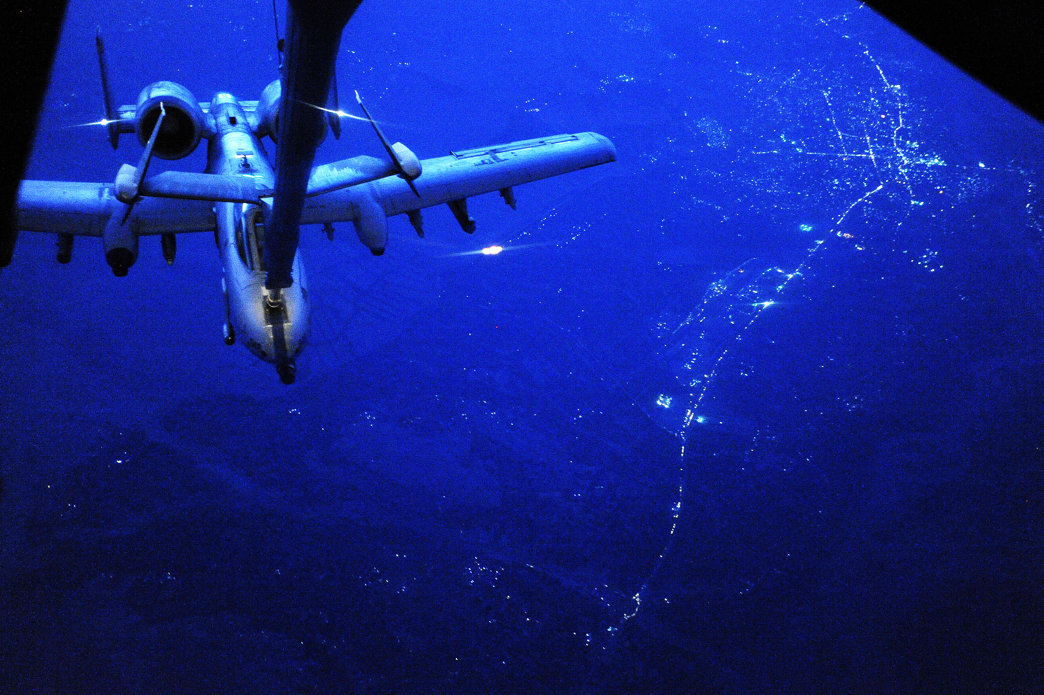 Over Afghanistan, an A-10 Thunderbolt II receives fuel from a KC-10 Extender, Oct. 5, 2009.